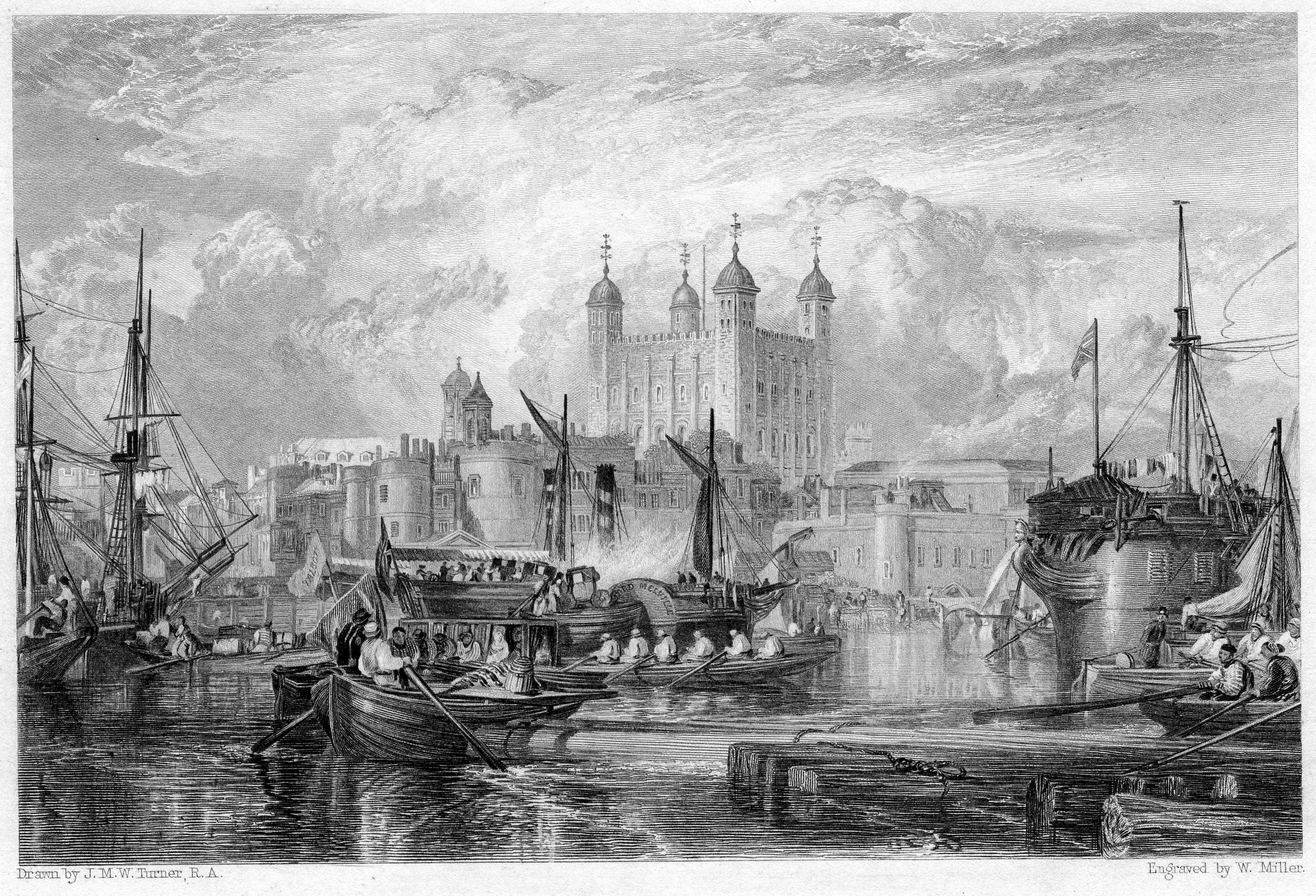 Tower of London, engraving by William Miller (Miller paid £57-15-0 in v 1831 for engraving), after J. M. W. Turner (Rawlinson 318), published in The Literary Souvenir for 1832. Alaric A Watts. London, Longman, Rees, Orme, Brown and Green, 1832